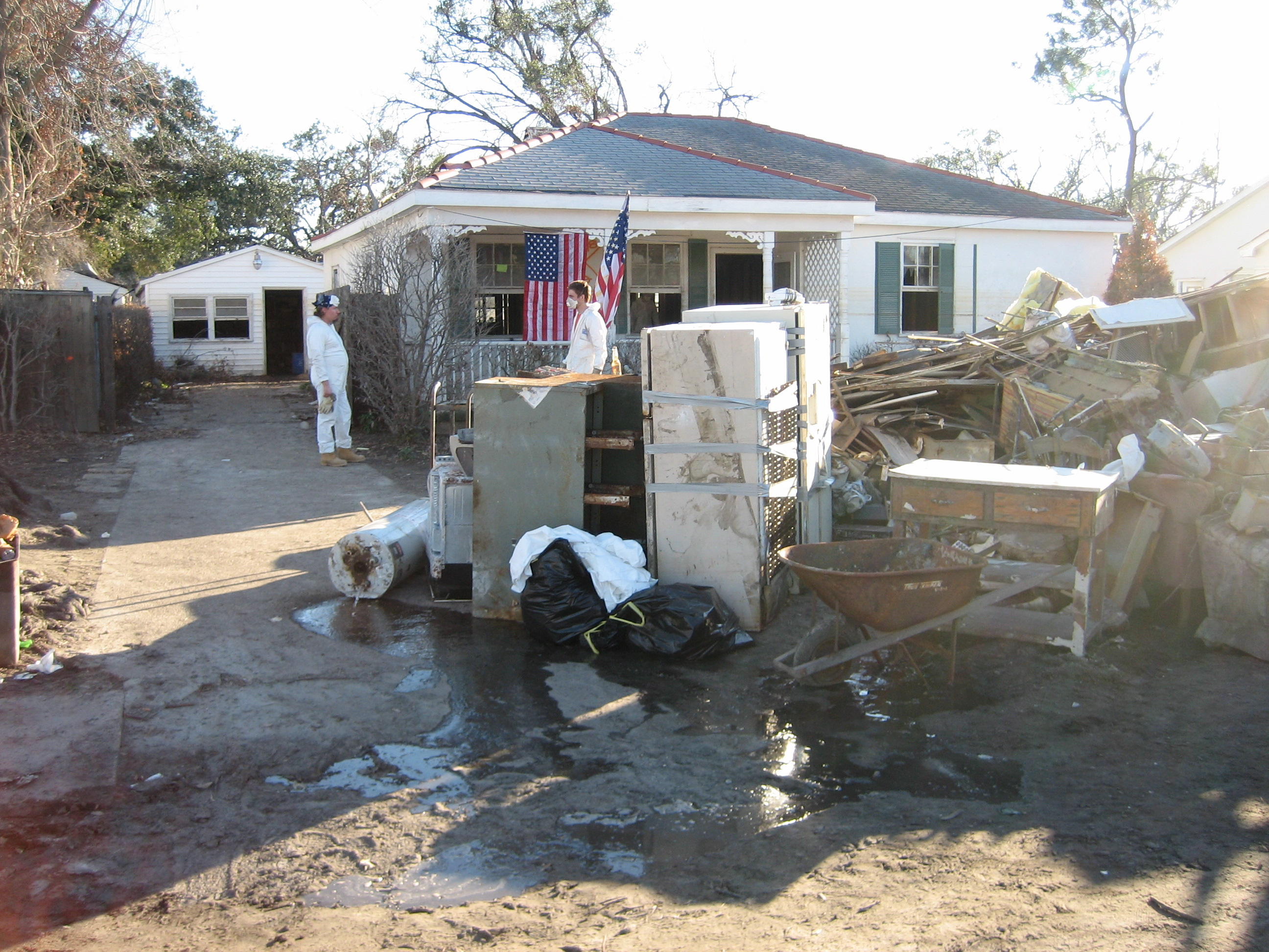 New Orleans after Hurricane Katrina: Residents clear out flood damaged possessions from their home near the lower breach of the London Avenue Canal Photo by Infrogmation